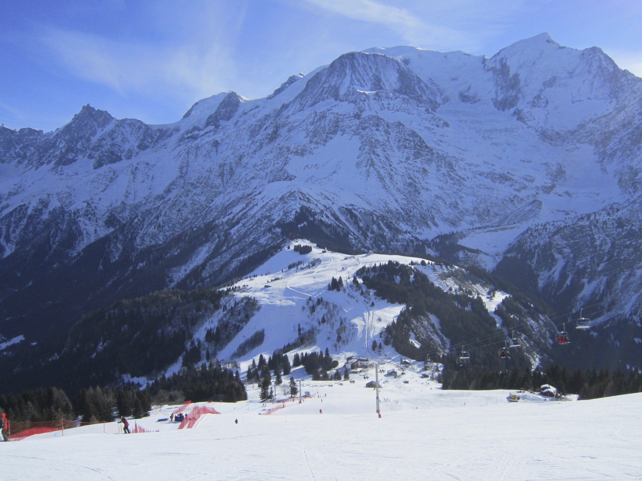 Photograph of the top of the Bellevue chairlift from the slope of the Kandahar, Les Houches, Chamonix, France.